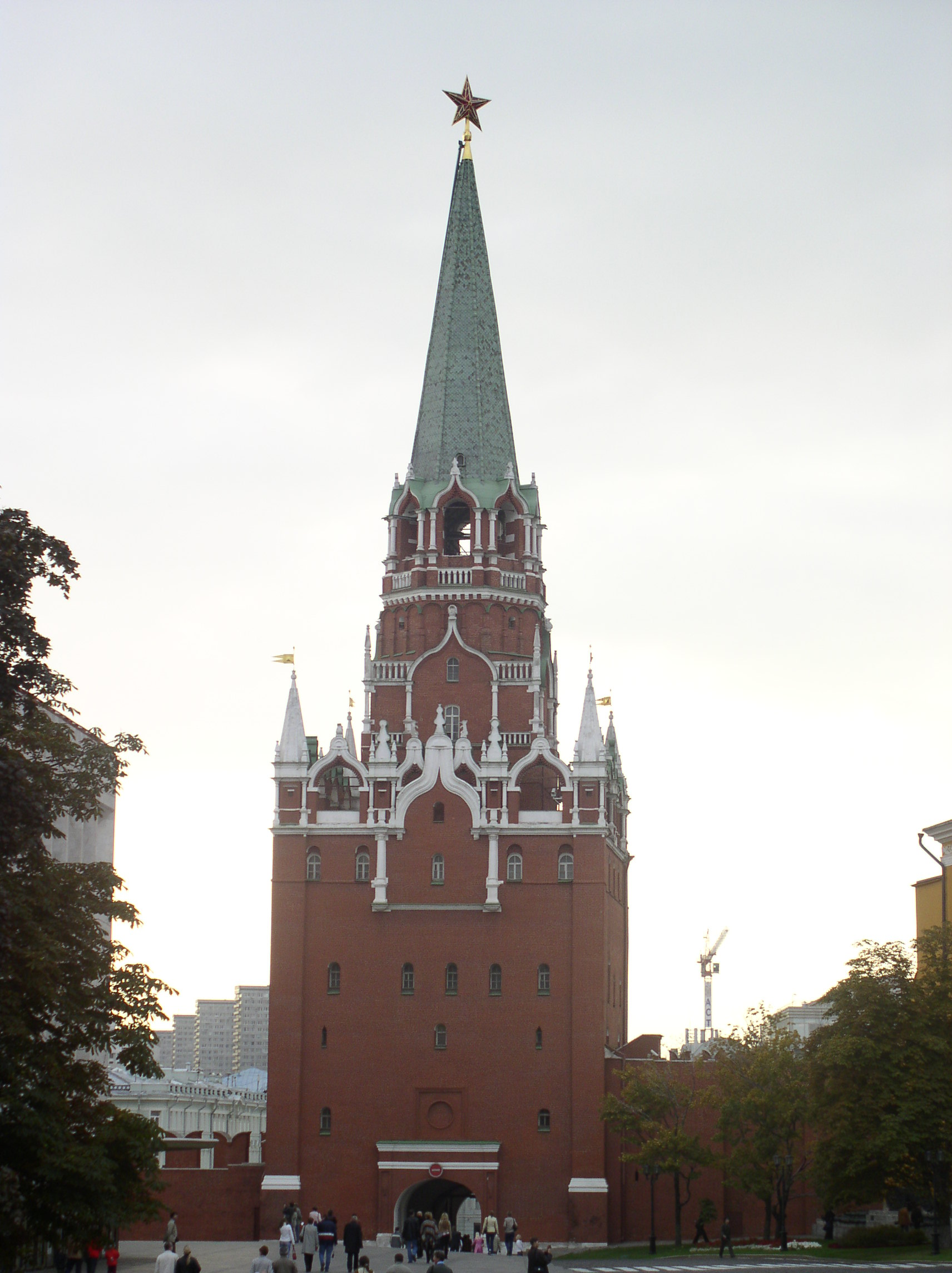 Trinity tower of Moscow Kremlin. Moscow, Russia.